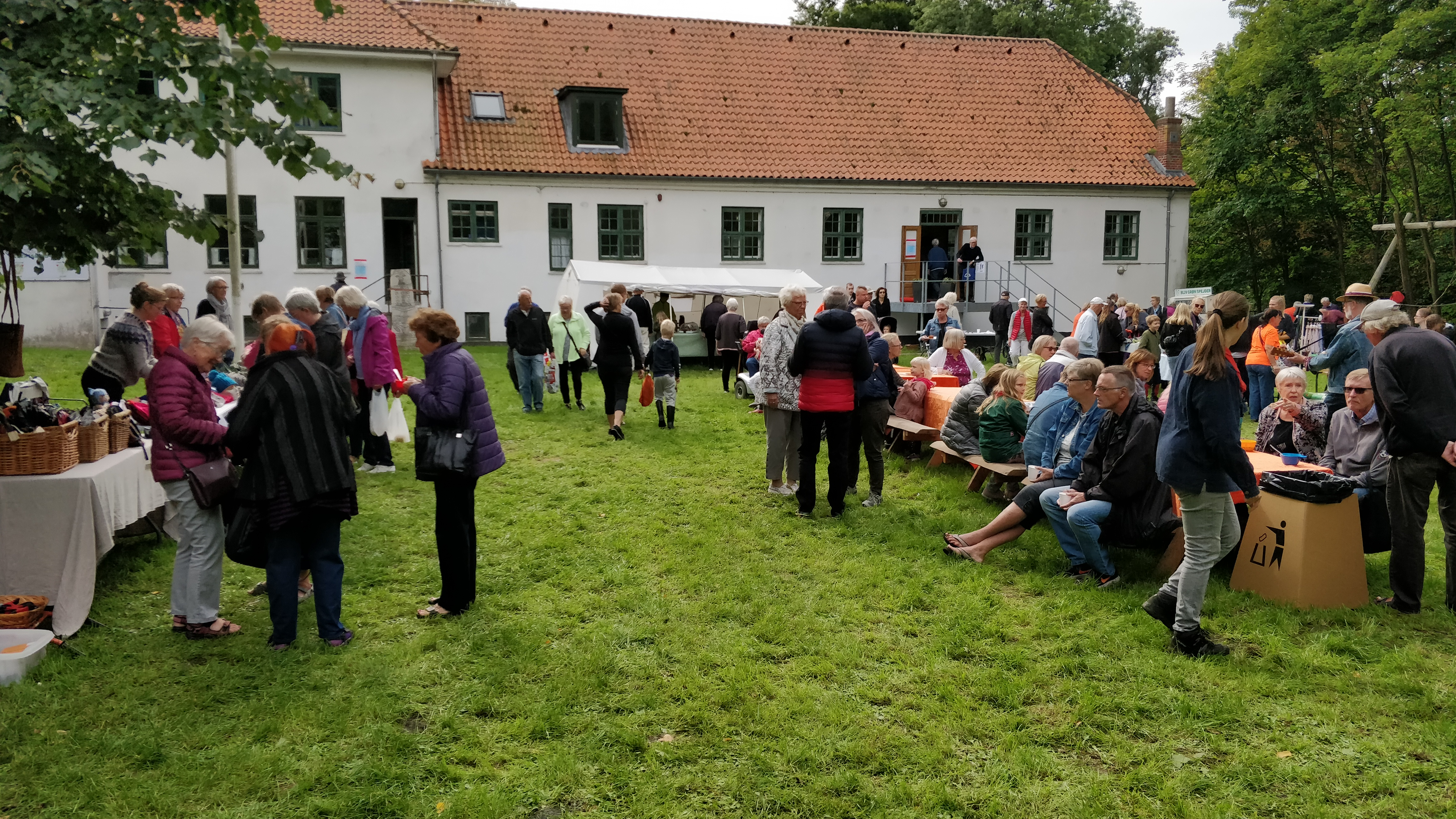 Harvest market at Roskilde Kro in September 2018